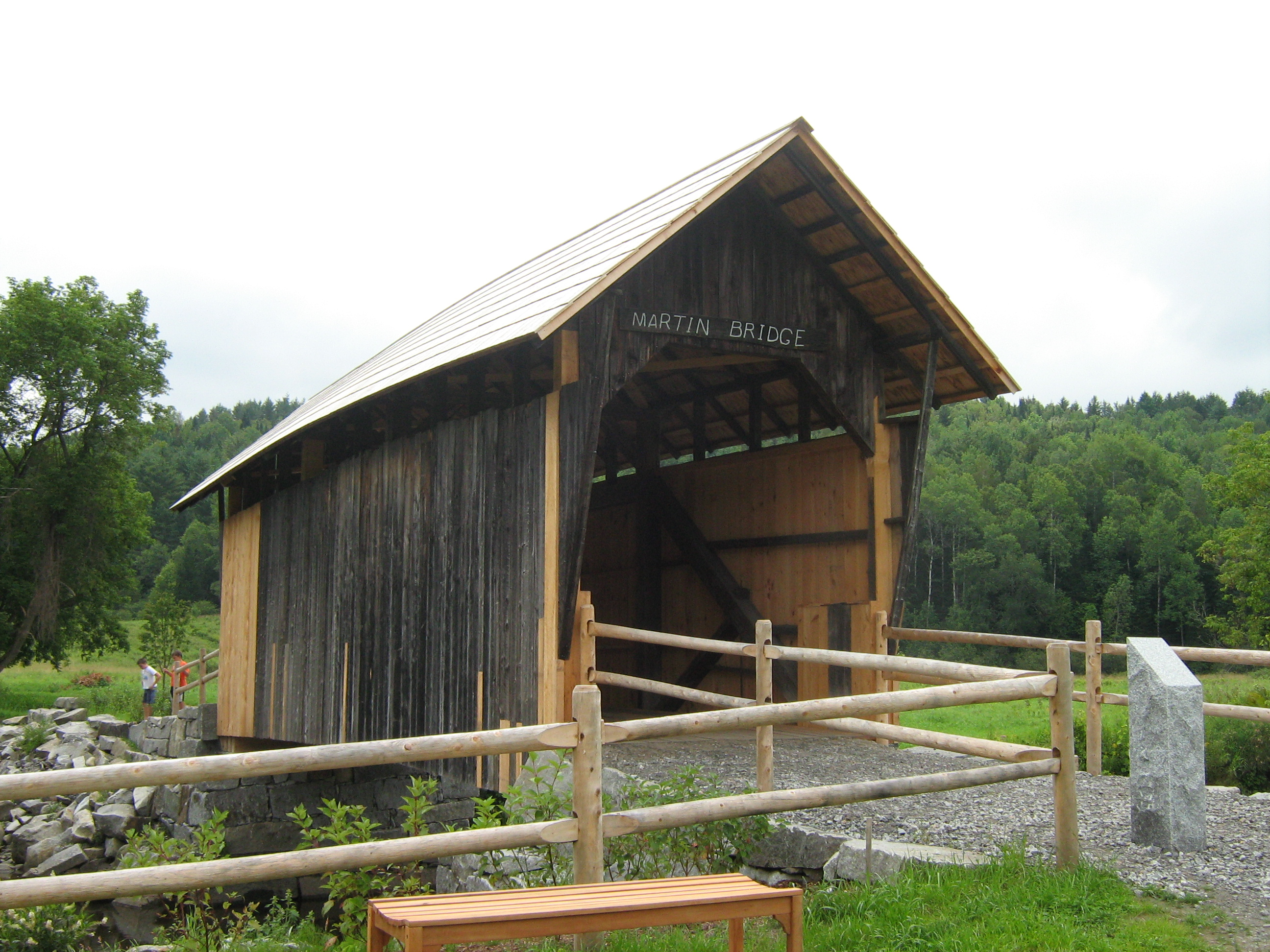 Martin (a/k/a Orton Farm) Covered Bridge, Marshfield, Vermont Builder and date unknown Spanning the Winooski River as the centerpiece of a town park, east of Plainfield village. Unique to this bridge is a cattle gate in the middle.